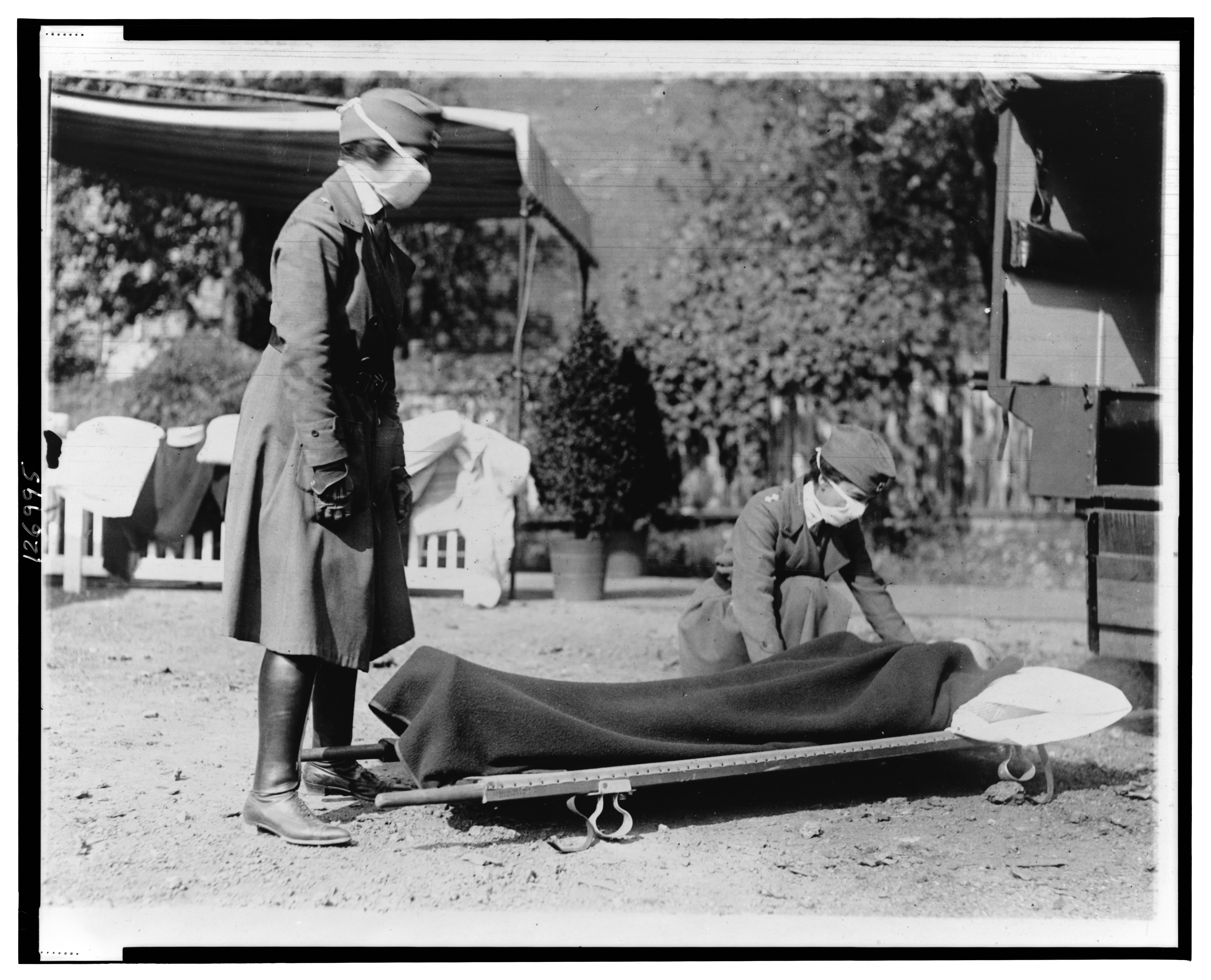 "Demonstration at the Red Cross Emergency Ambulance Station in Washington, D.C., during the influenza pandemic of 1918."